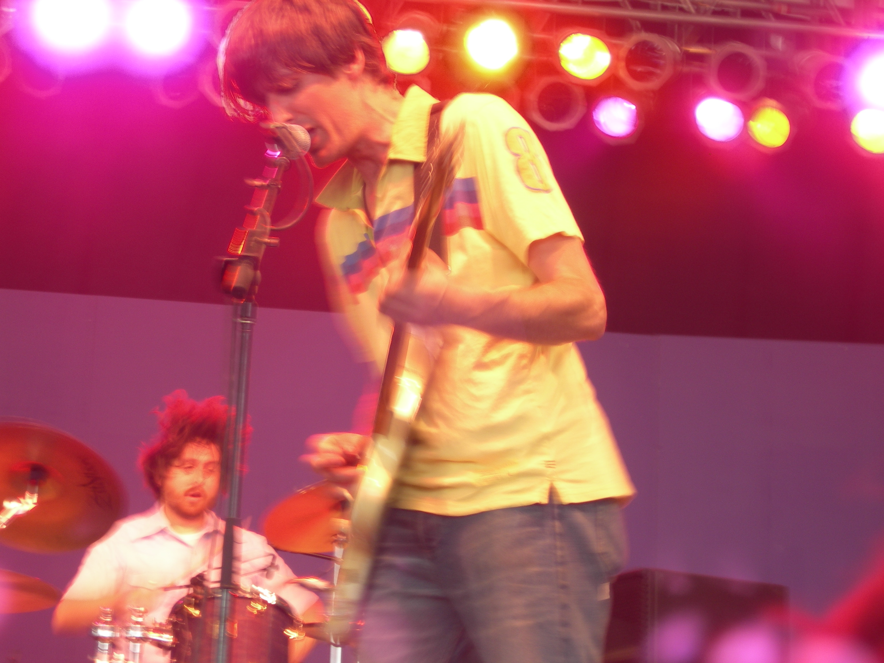 Stephen Malkmus and the Jicks playing at Bonnaroo in Manchester, Tennessee on Sunday, June 18, 2006. Own Work. Photo taken by Scott Ham of Ann Arbor, MI.